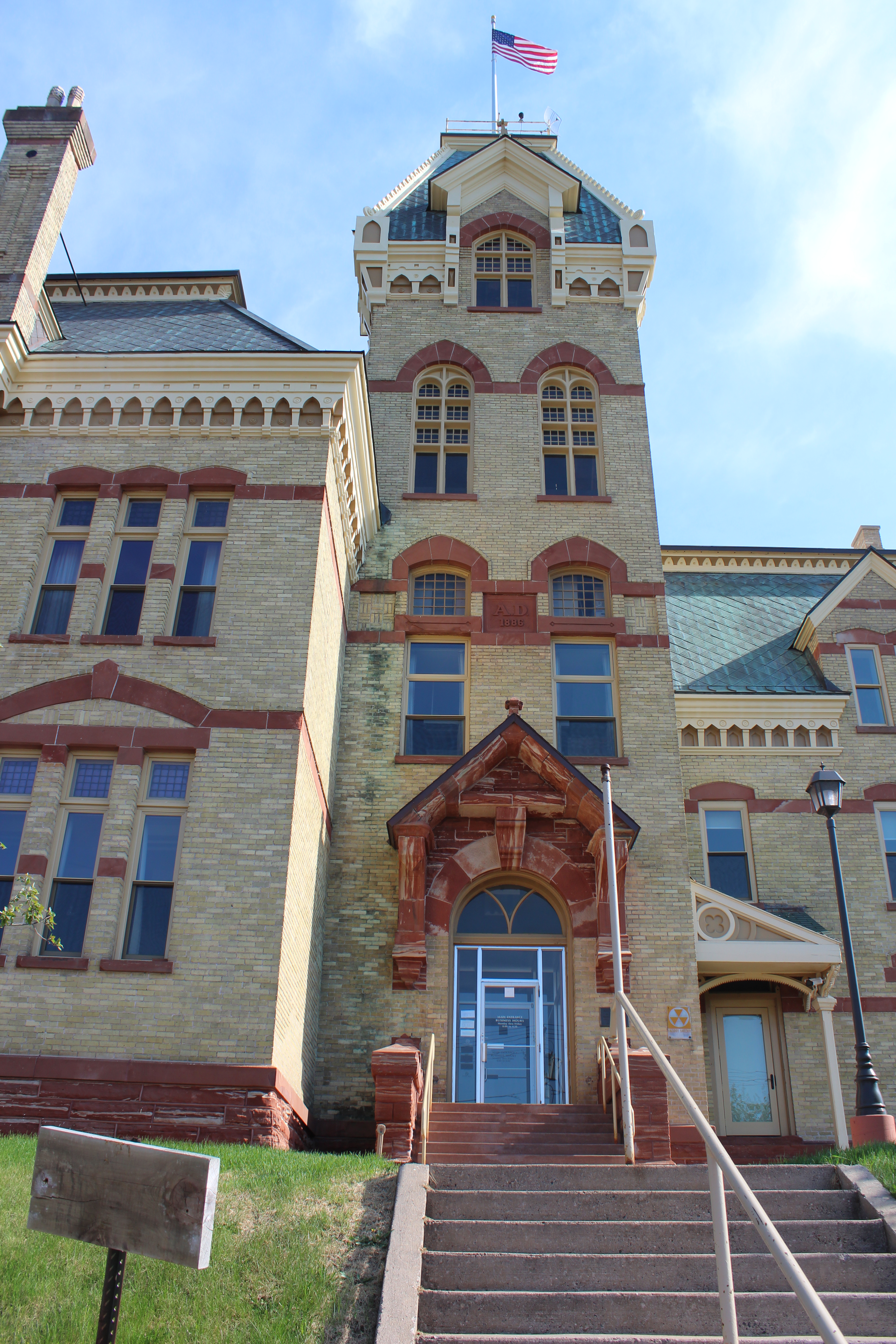 The NRHP-listed Houghton County Courthouse in Houghton, Michigan. Detail of entrance.